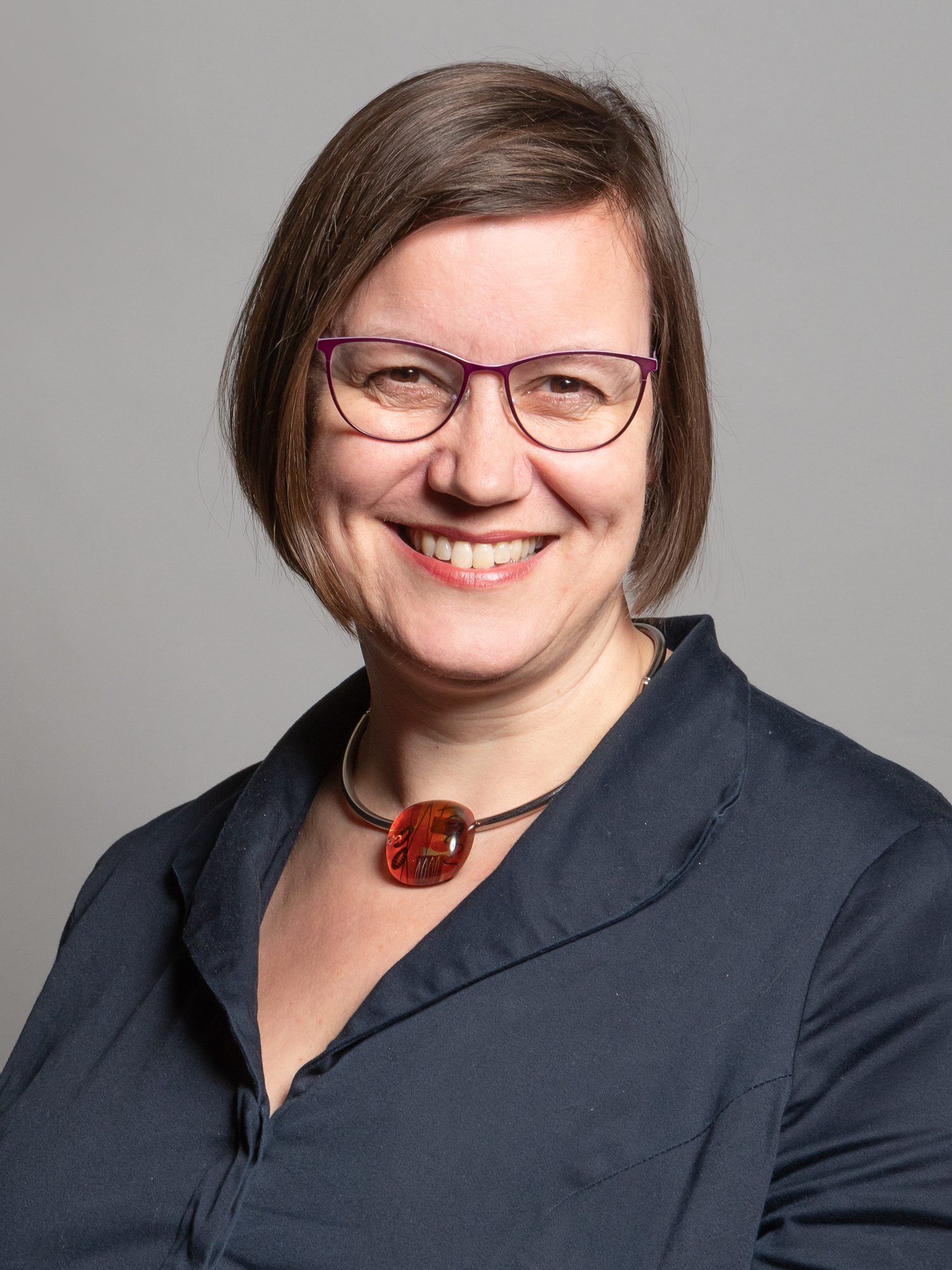 Official portrait of Meg Hillier MP 3×4 portrait of Meg Hillier